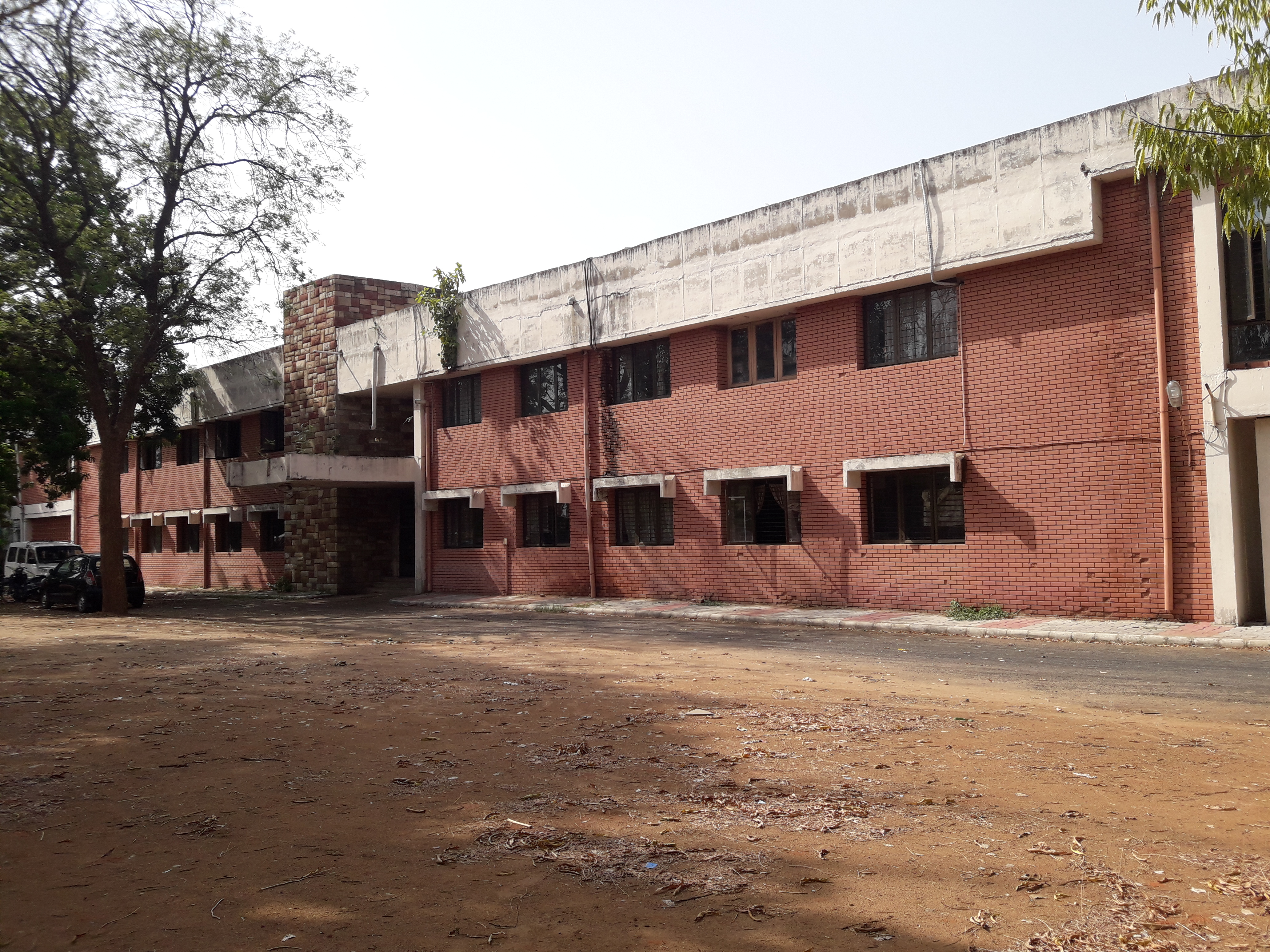 Gujarat Sahitya Akadami, a literary organisation run by Government of Gujarat, at Gandhinagar, Gujarat, India.